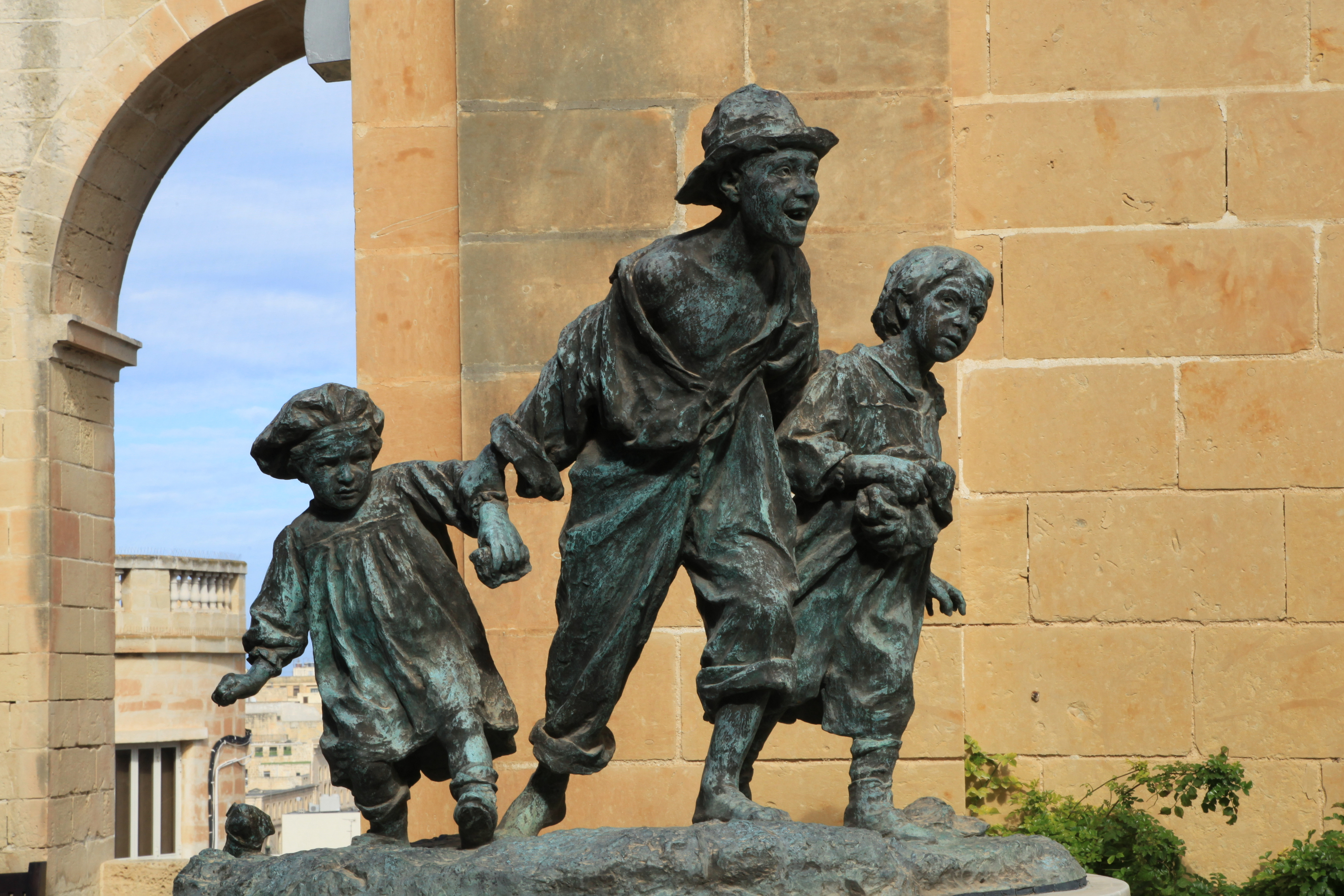 Les Gavroches by Antonio Sciortino, Upper Barrakka Gardens, Pjazza Kastilja in Valletta, Malta